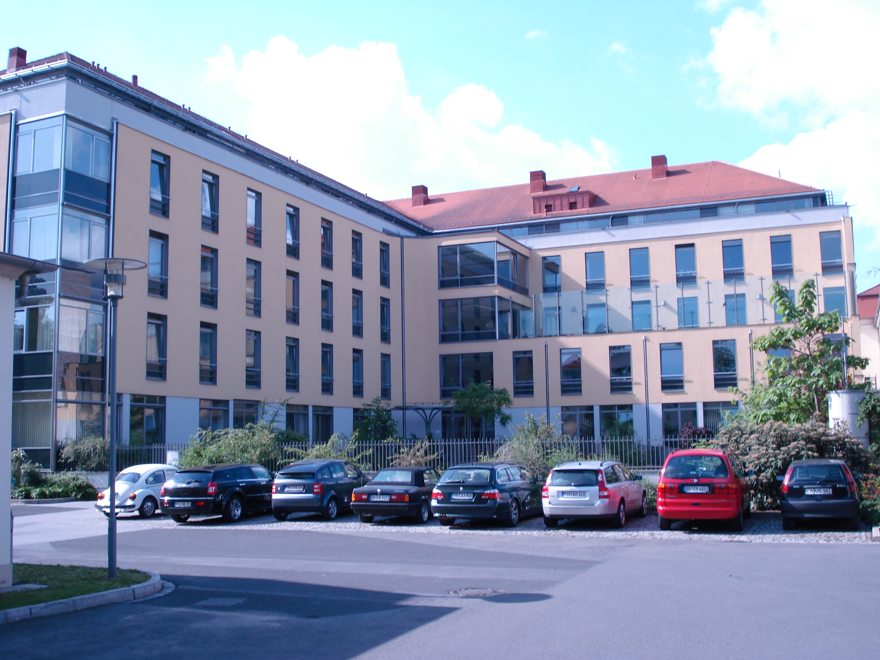 The exterior of the Dresden Friedrichstadt Hospital